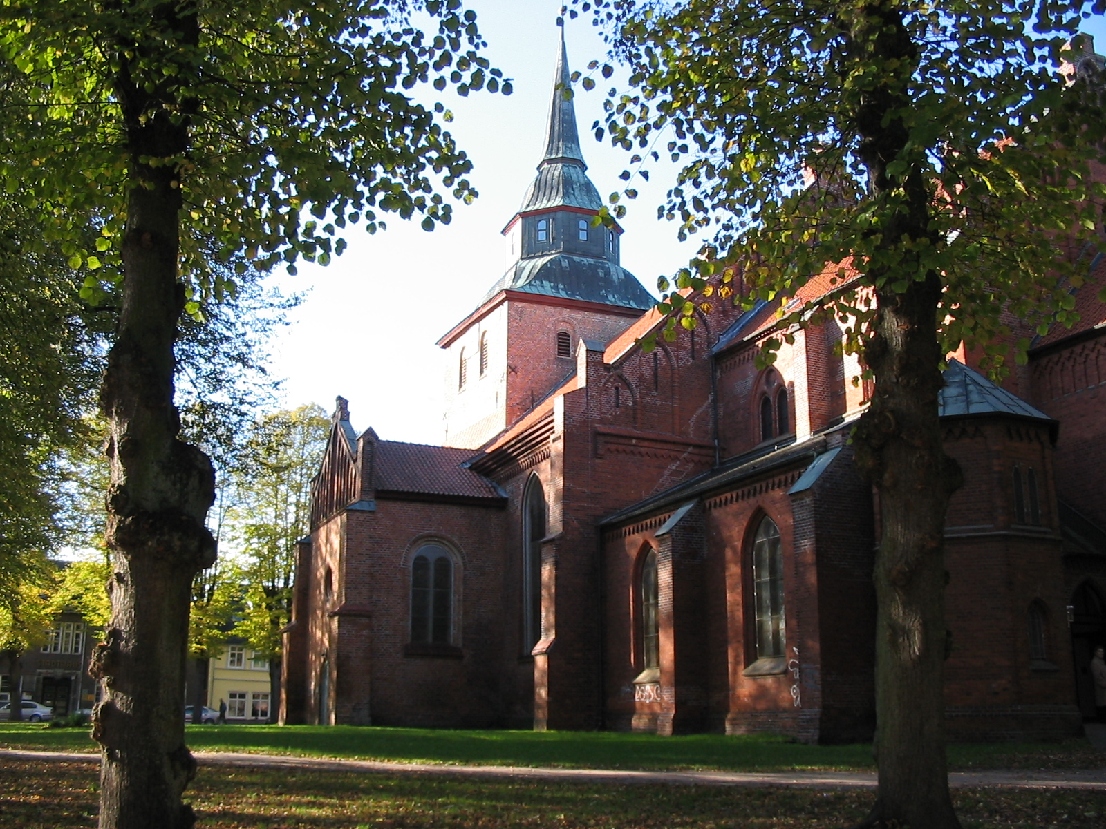 Church in Boizenburg, Mecklenburg-Vorpommern, Germany